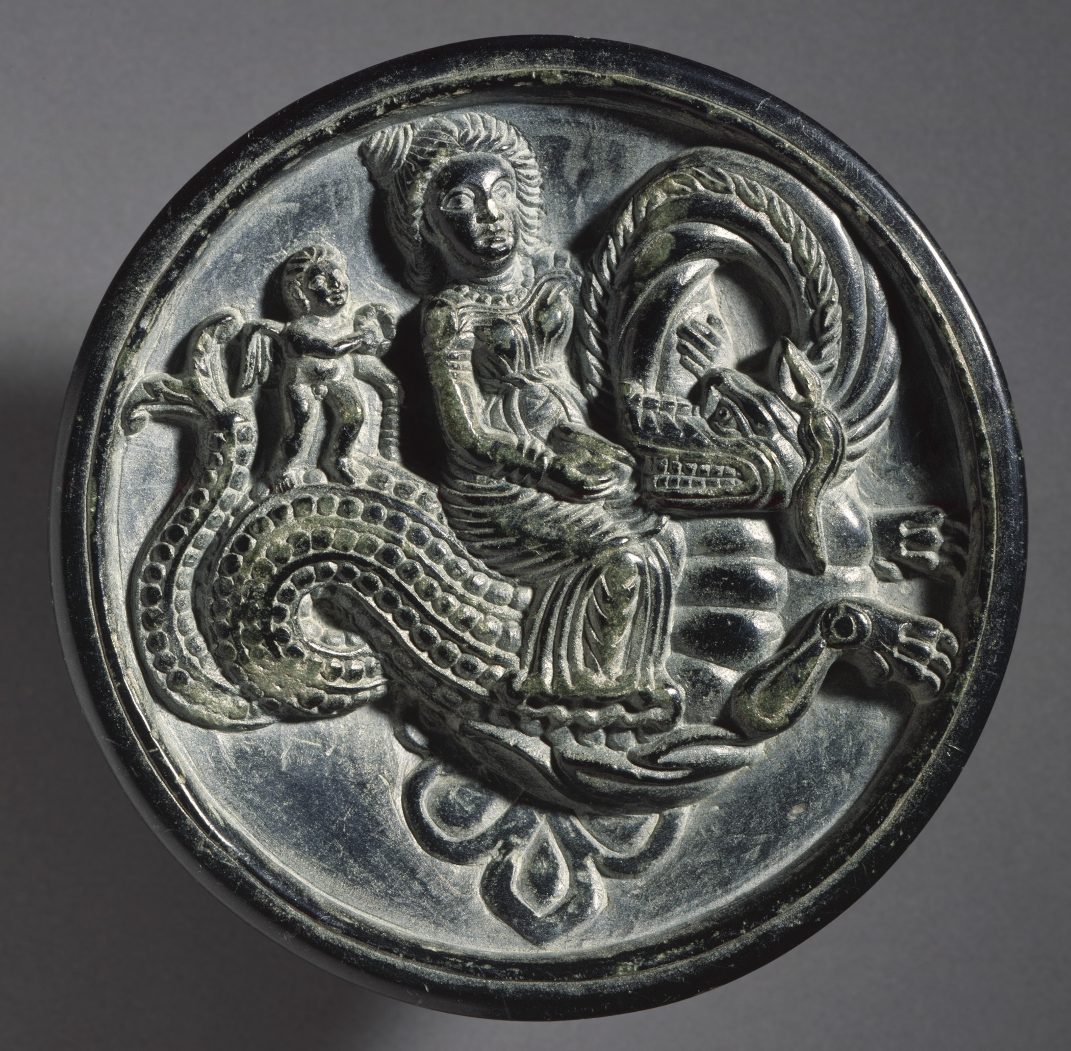 Pakistan, Taxila area (?), Gandhara region, 1st century B.C. Furnishings; Serviceware Black chloritic schist Height: 3/4 in. (1.91 cm); Diameter: 4 7/8 in. (12.38 cm) Purchased with funds provided by the South and Southeast Asian Acquisition Fund and the Southern Asian Art Council (M.2003.70) South and Southeast Asian Art